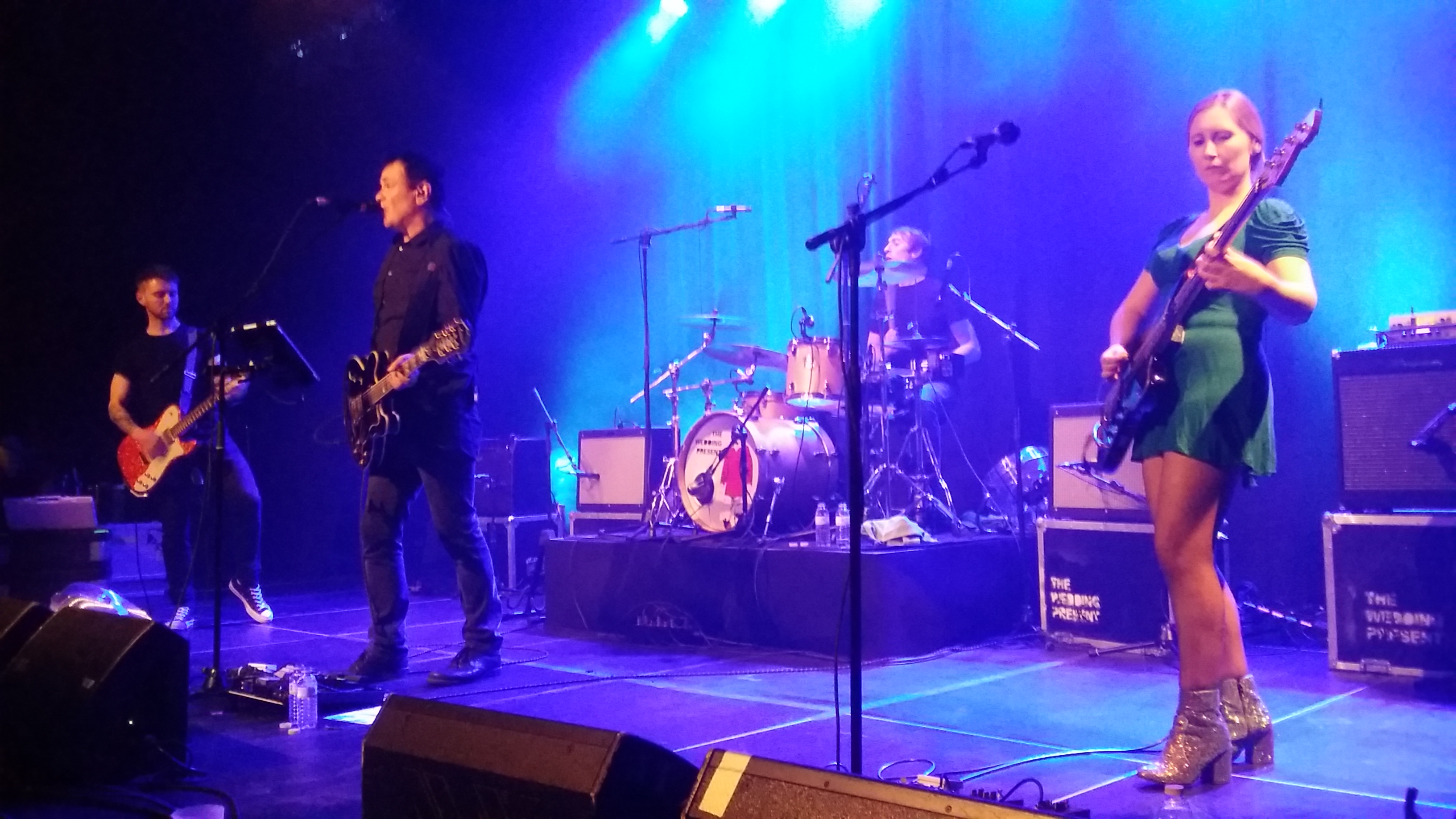 The wedding present taldearen kontzertua Intxaurrondo kultur etxean (2017-11-1)